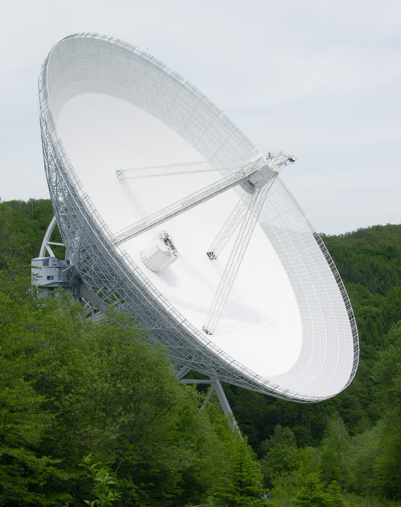 The 100m radio-telescope in Effelsberg, Germany